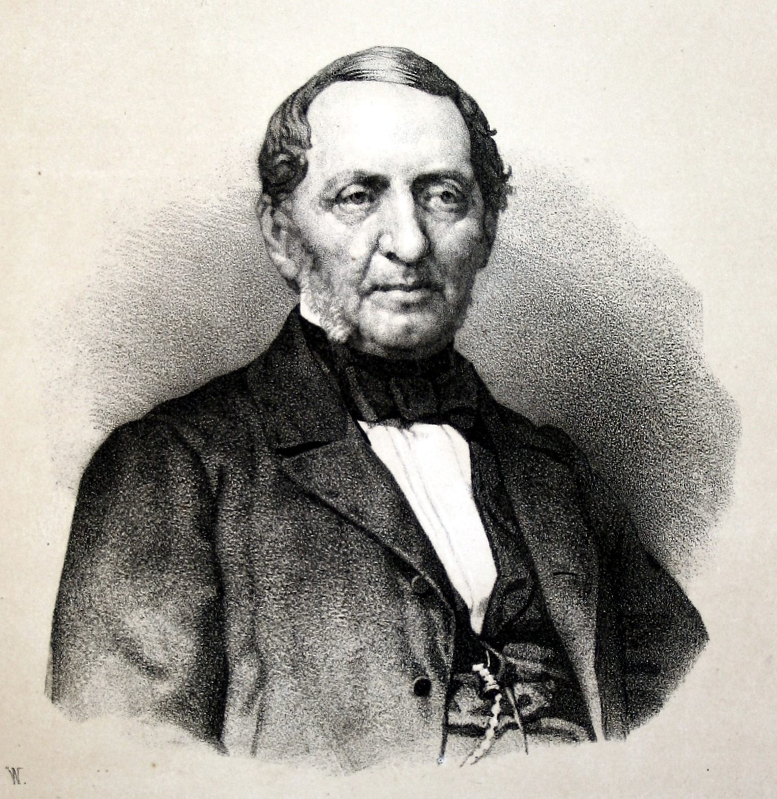 Portrait of Carl Norstedt from the book "Svenska industriens män" (1875)